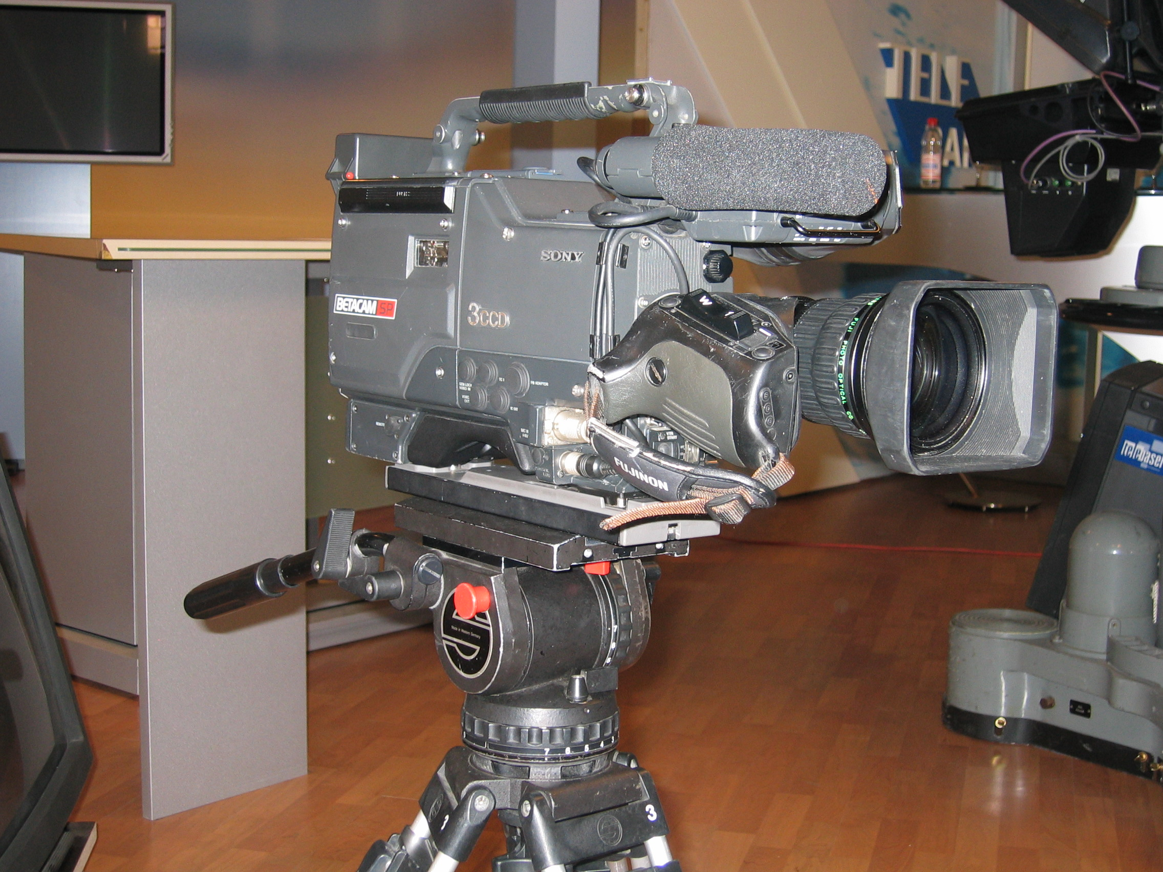 Sony Betacam SP camcorder BVW-300AP.